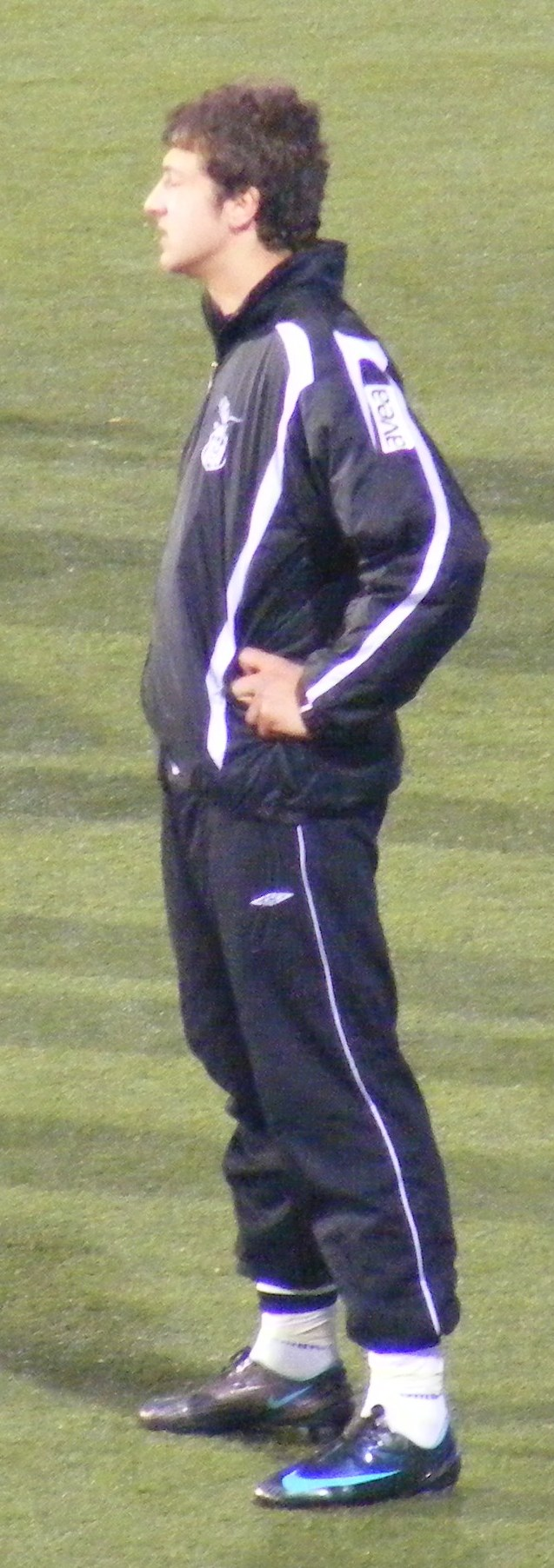 B.Karadeniz in the match against FB in 2008